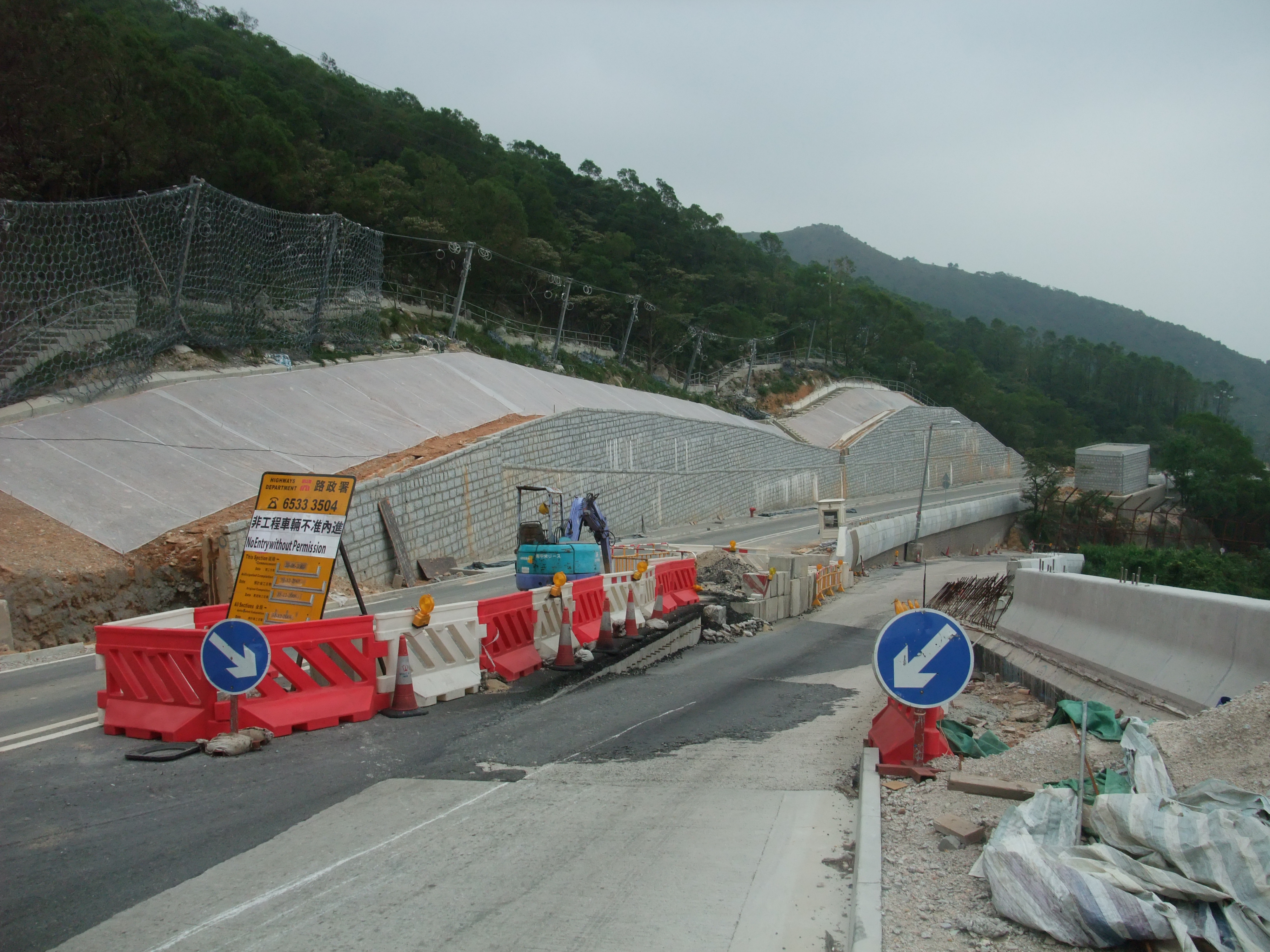 Photo of Tung Chung Road